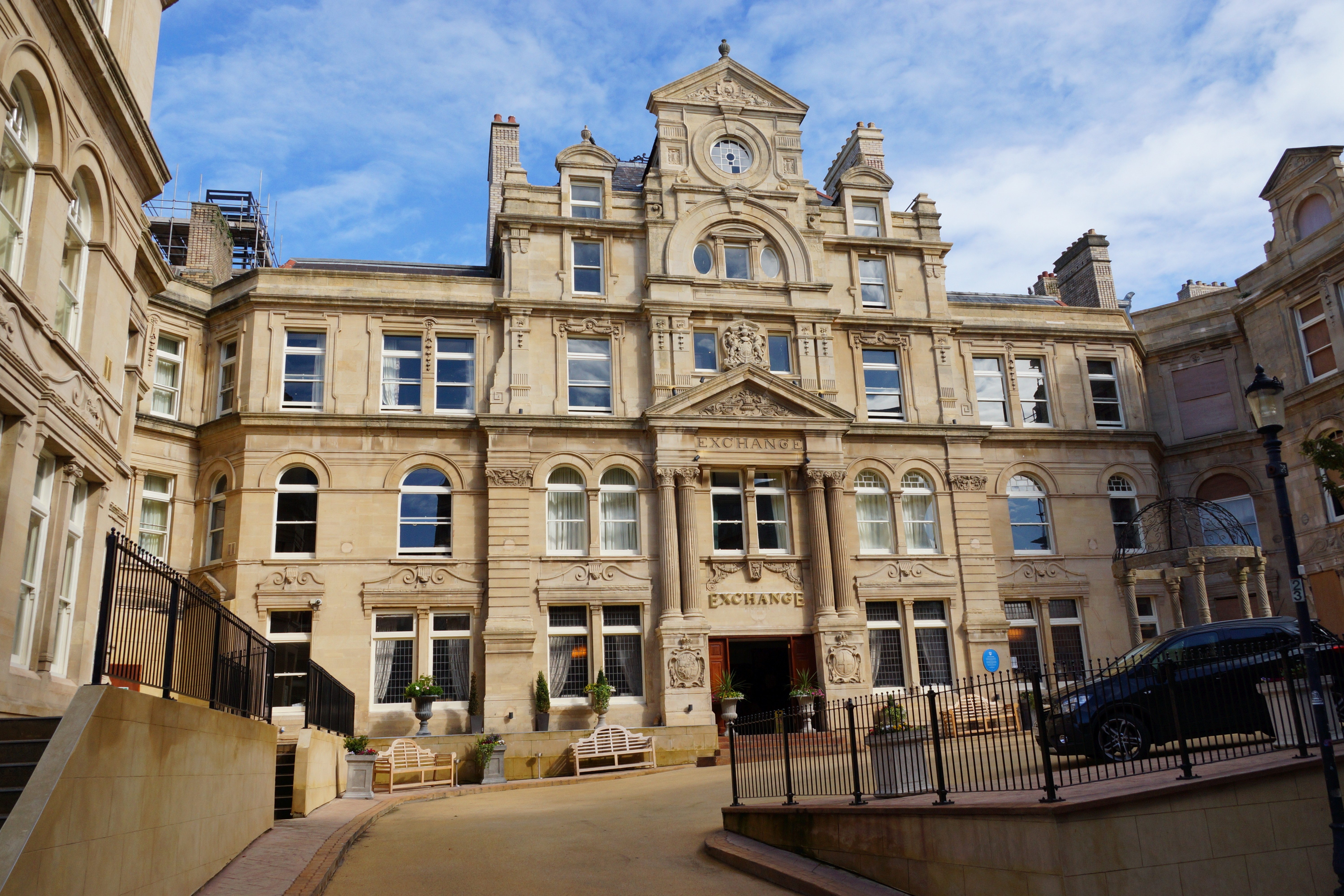 A walk around the old Butetown. Many wonderful buildings which used to alive with coal and stocks trading. The Coal Exchange, a building which was very much under threat until recently. Was a popular music venue later on in its life. Where the first million pound cheque in the world was signed in 1904. Now the Exchange Hotel and restoration continues.